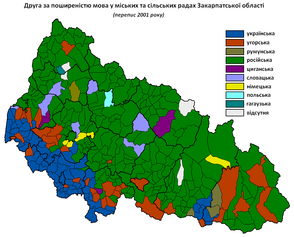 Second most common native languge in Zakarpattya oblast, 2001 census